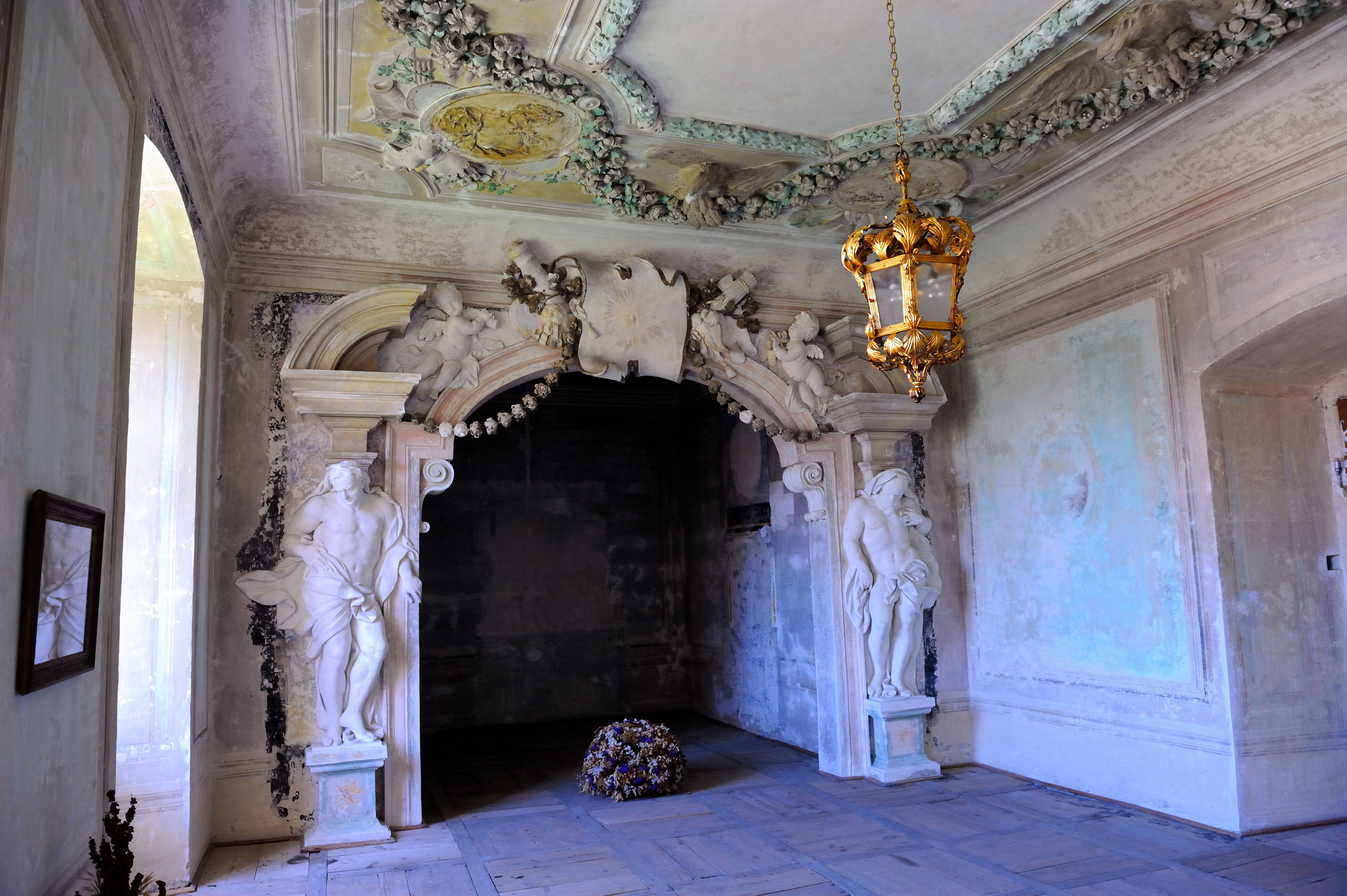 Theater with stucco decoration by Baldassare Fontana